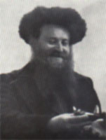 harav orenshtain - first kotel rabbi.